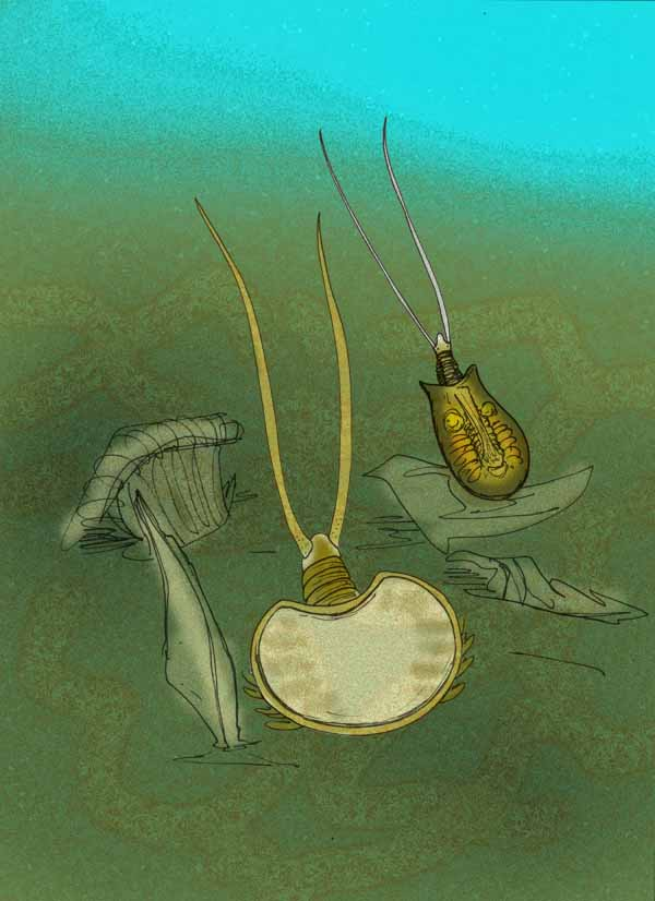 Reconstructions of the notostracans Jeholops hongi (left) and Chenops oblongus from the Lower Cretaceous Jehol lagerstatten of China